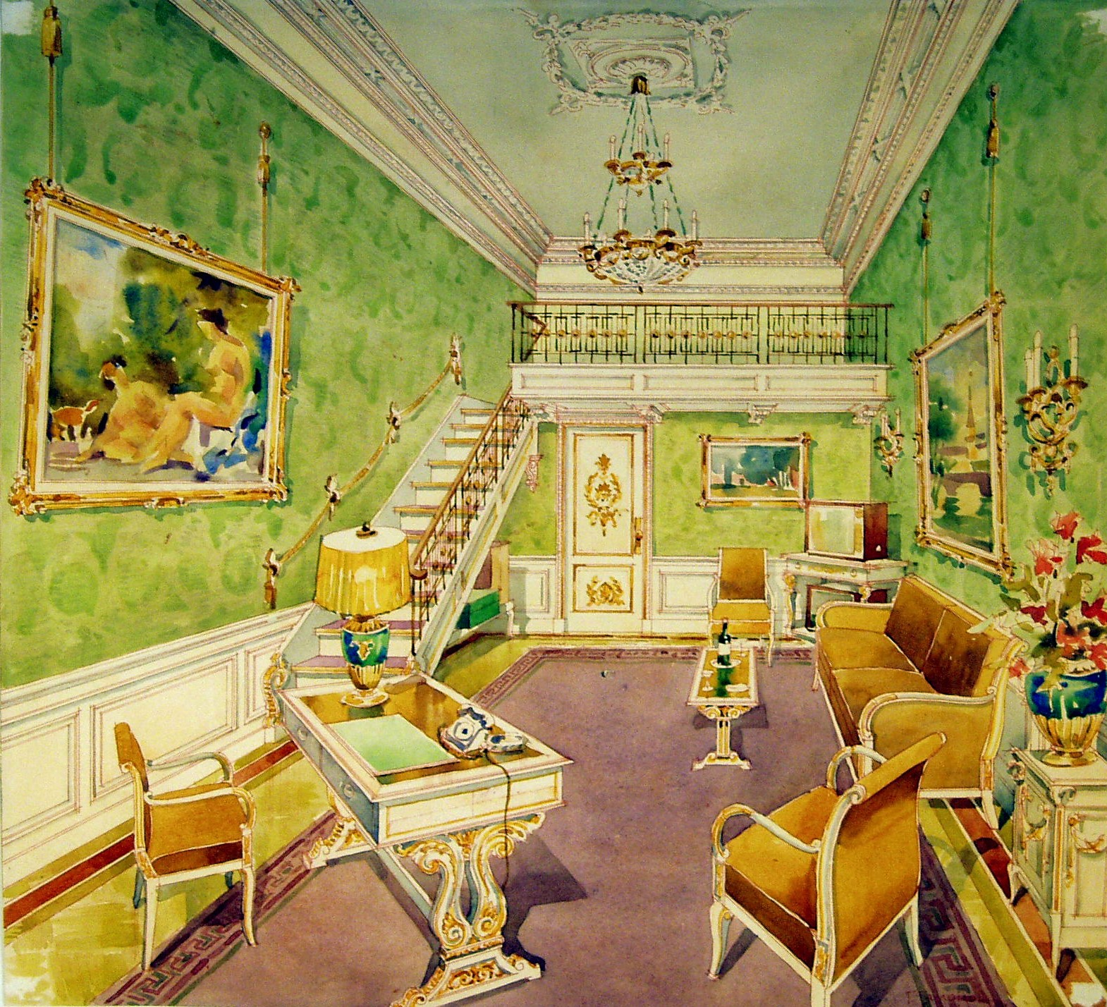 The enterior of Hotel Moskva in Belgrade from 1972. Designed by Grigorije Samojlov.